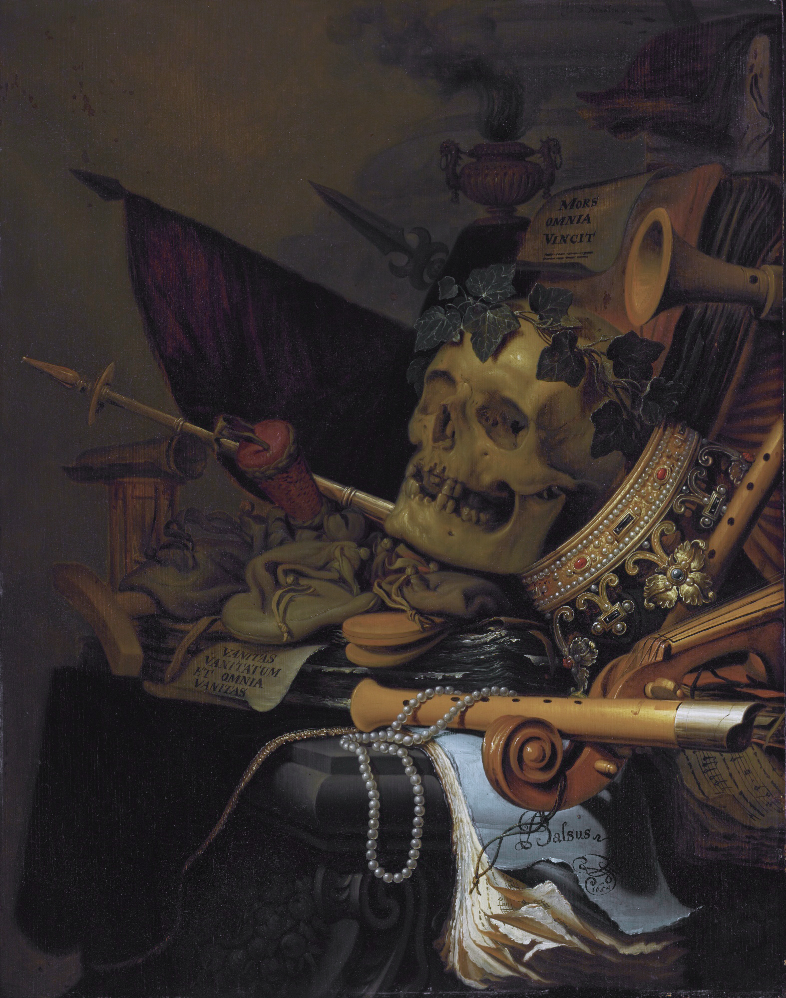 Vanitas still life oil on panel 73.3 x 57.8 cm signed t.r.: J. V. Meulen dated b.r.: 1654